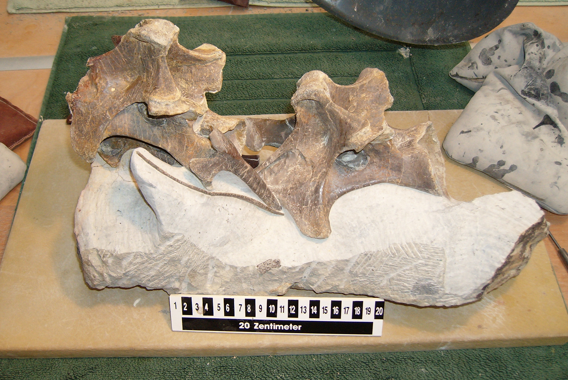 Articulated neck (cervical) vertebrae of Europasaurus holgeri.